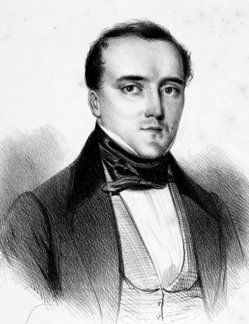 French opera singer Prosper Dérivis (1808-1880)